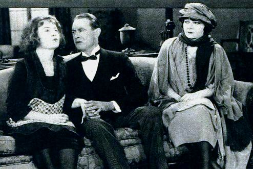 Still from the American film Love Is an Awful Thing (1922) with Marjorie Daw, Owen Moore, and Katherine Perry, page 38 of the December 1922 Screenland. The top of the still was cropped for publication in the magazine.